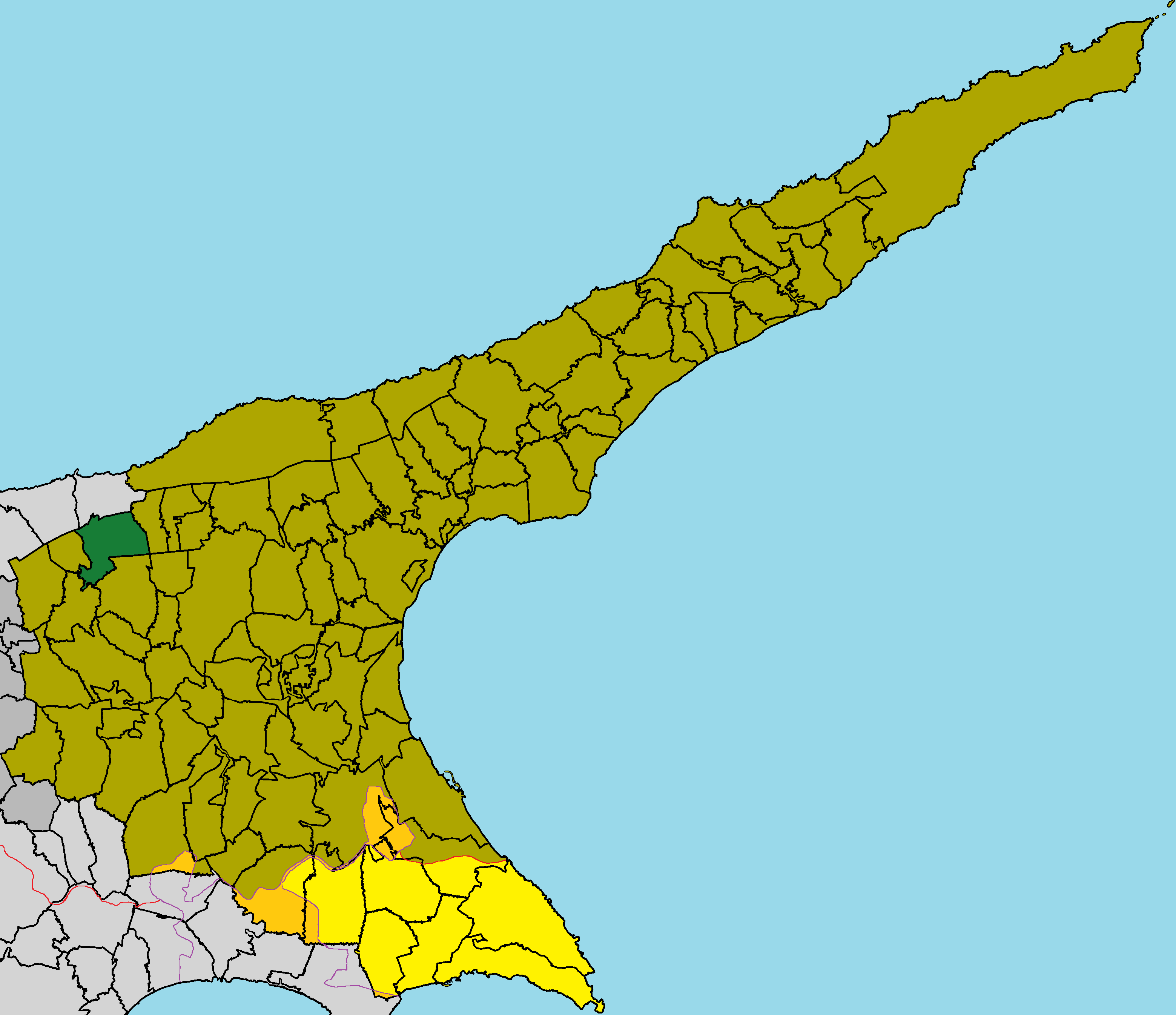 Trypimeni in Famagusta District (de jure).